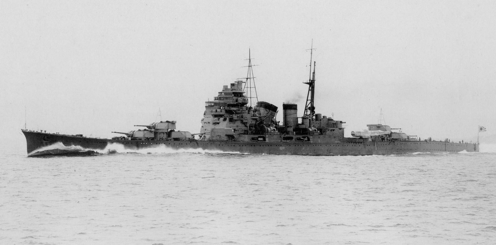 Japanese heavy cruiser Atago on full-power trials. Sukumo Bay, 13 February 1932.